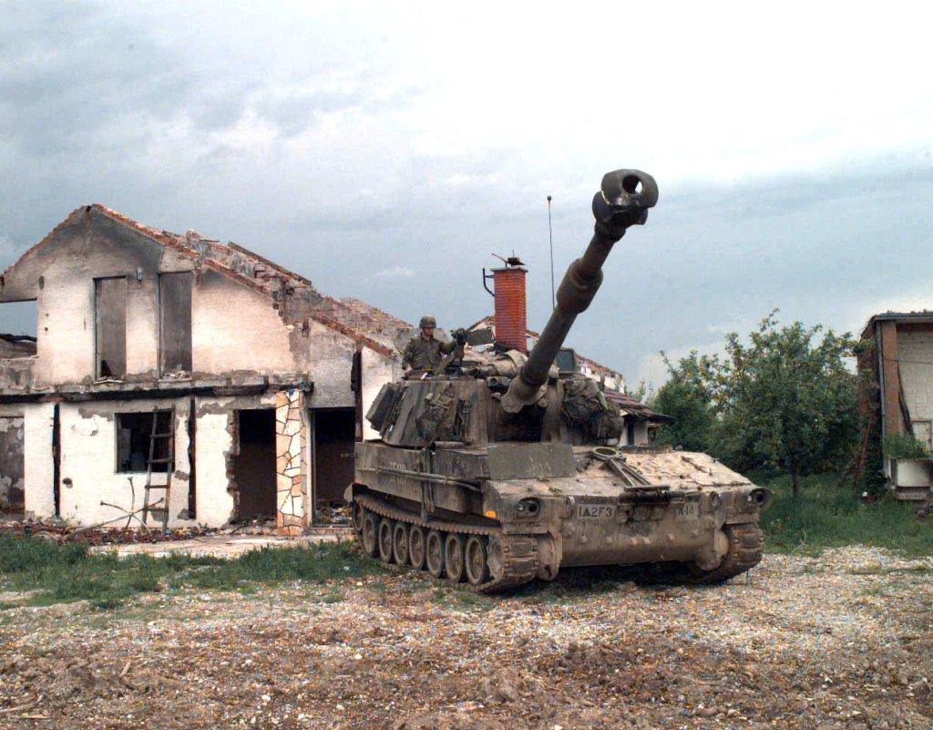 A M-109A3 howitzer in Bosnia and Herzegovina